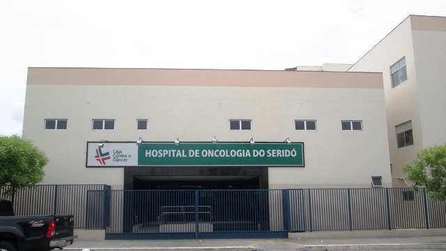 Hospital.